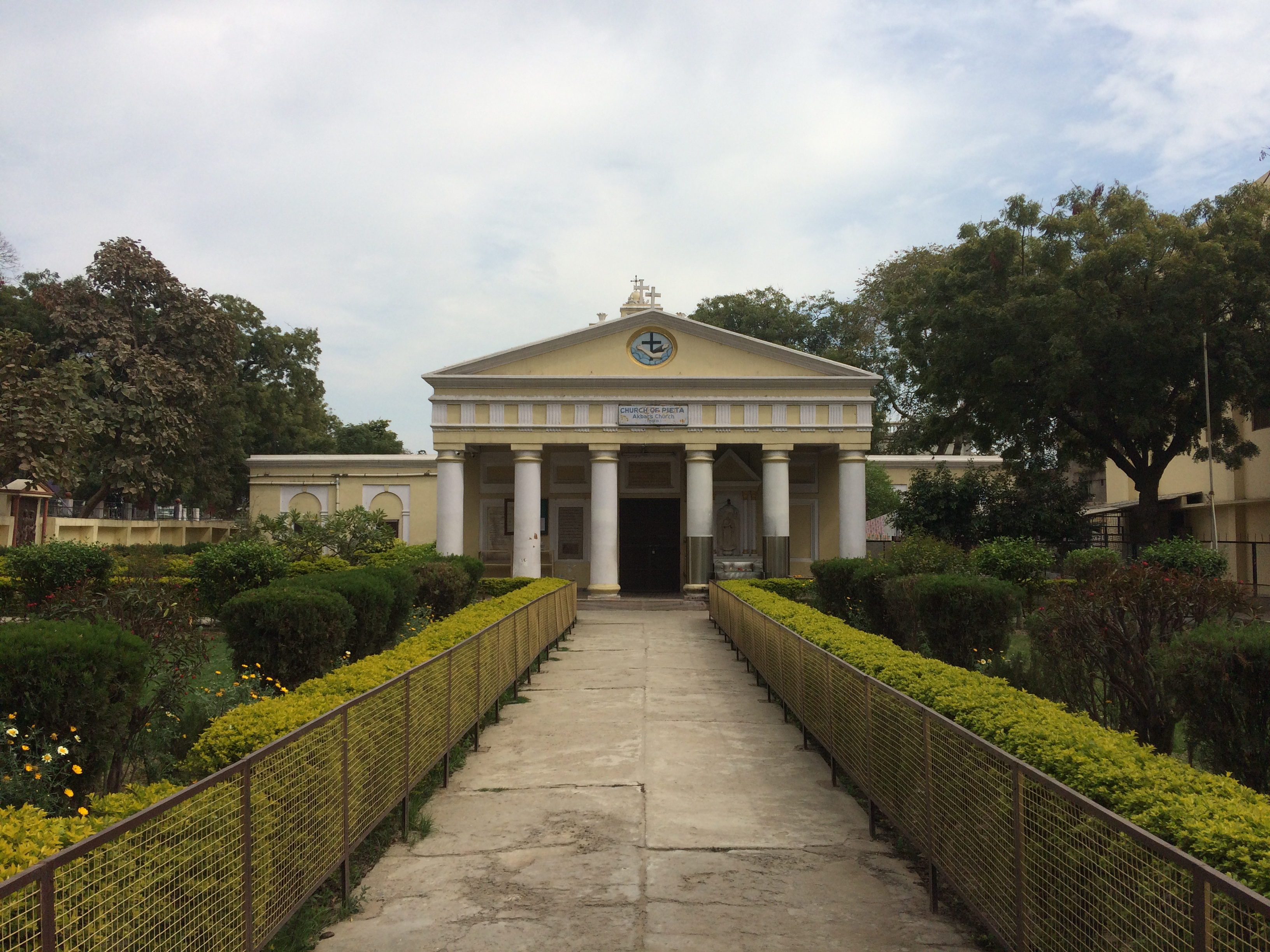 Akbar got this church constructed with the help of Jesuit missionaries in Agra, UP